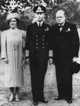 Winston Churchill with George VI and Queen Elizabeth the Queen Mother